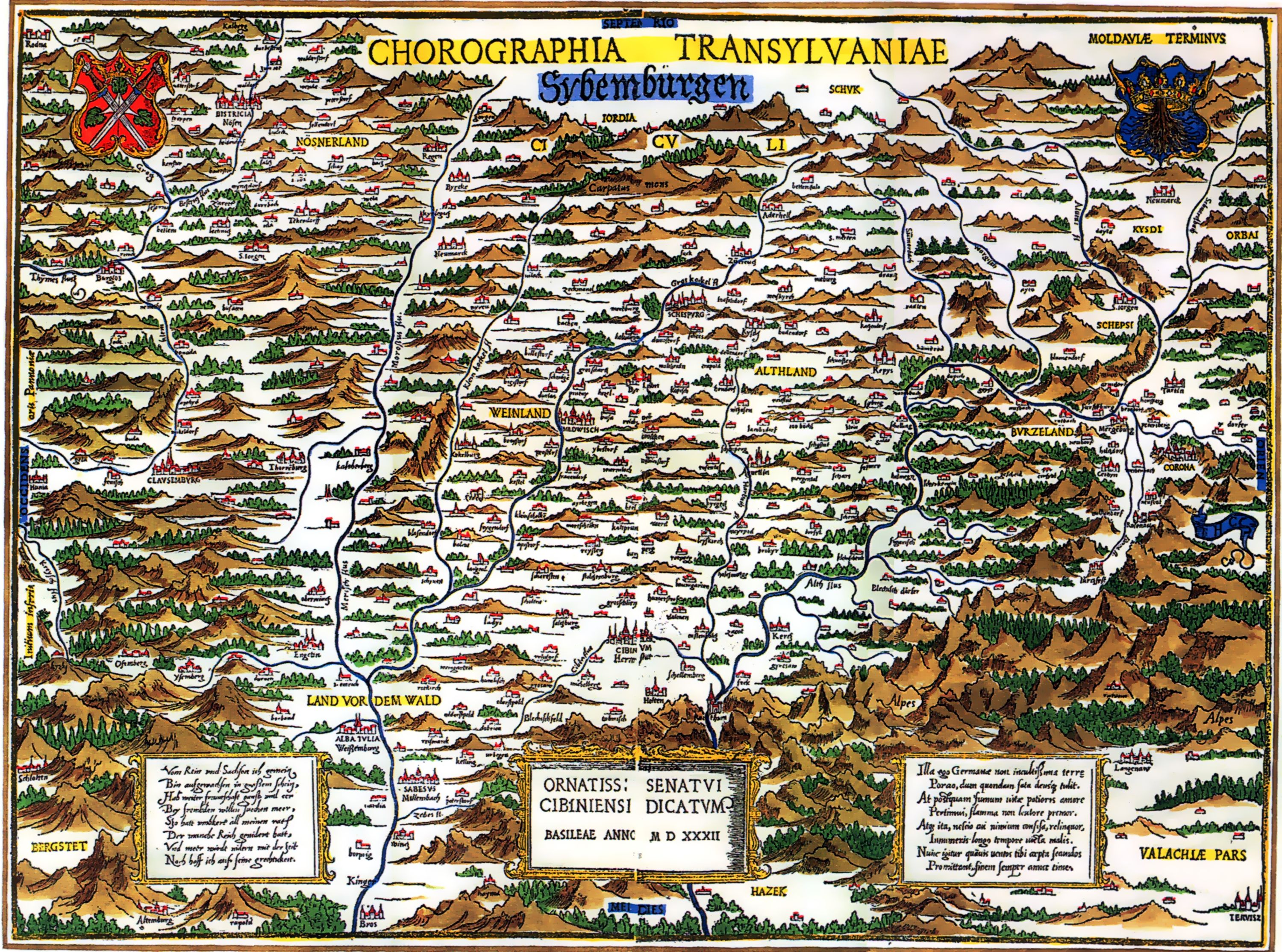 Map of Transylvania. Made in 1532 by Johannes Honterus.